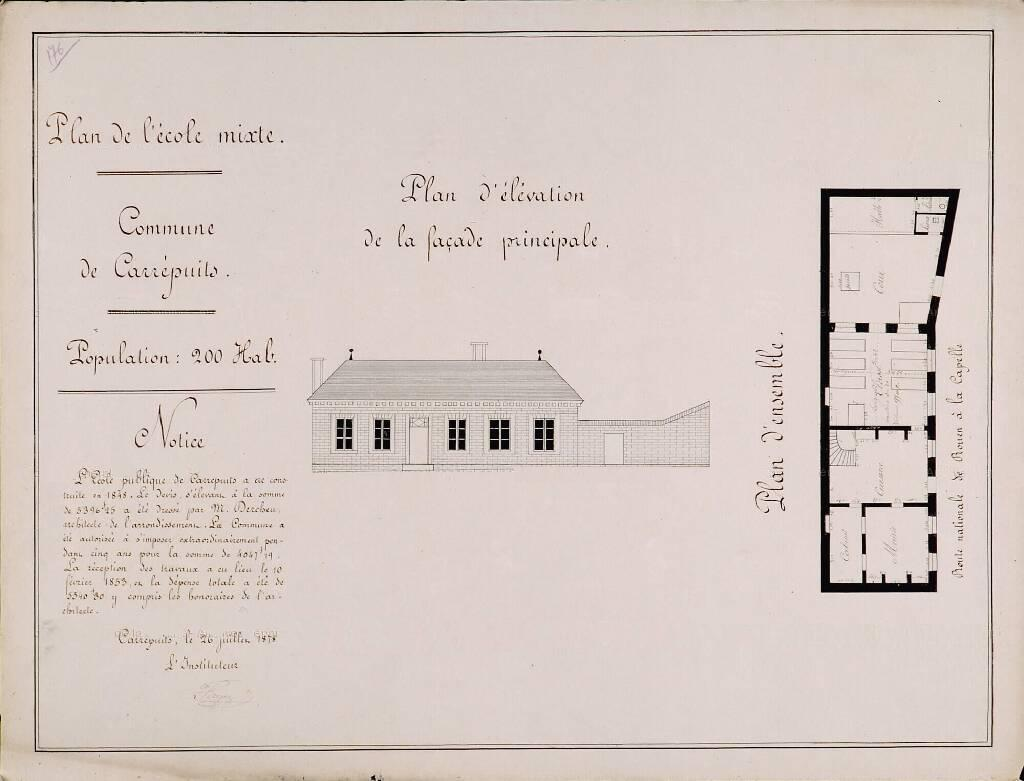 Plan of the school of Carrépuis. The plan was drawn by the architect Pierre Decheu in 1848. The school was built on February 10 1853. The note by the teacher was written on July 26 1878.